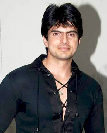 Rahil Azam at the Premiere of play Loot